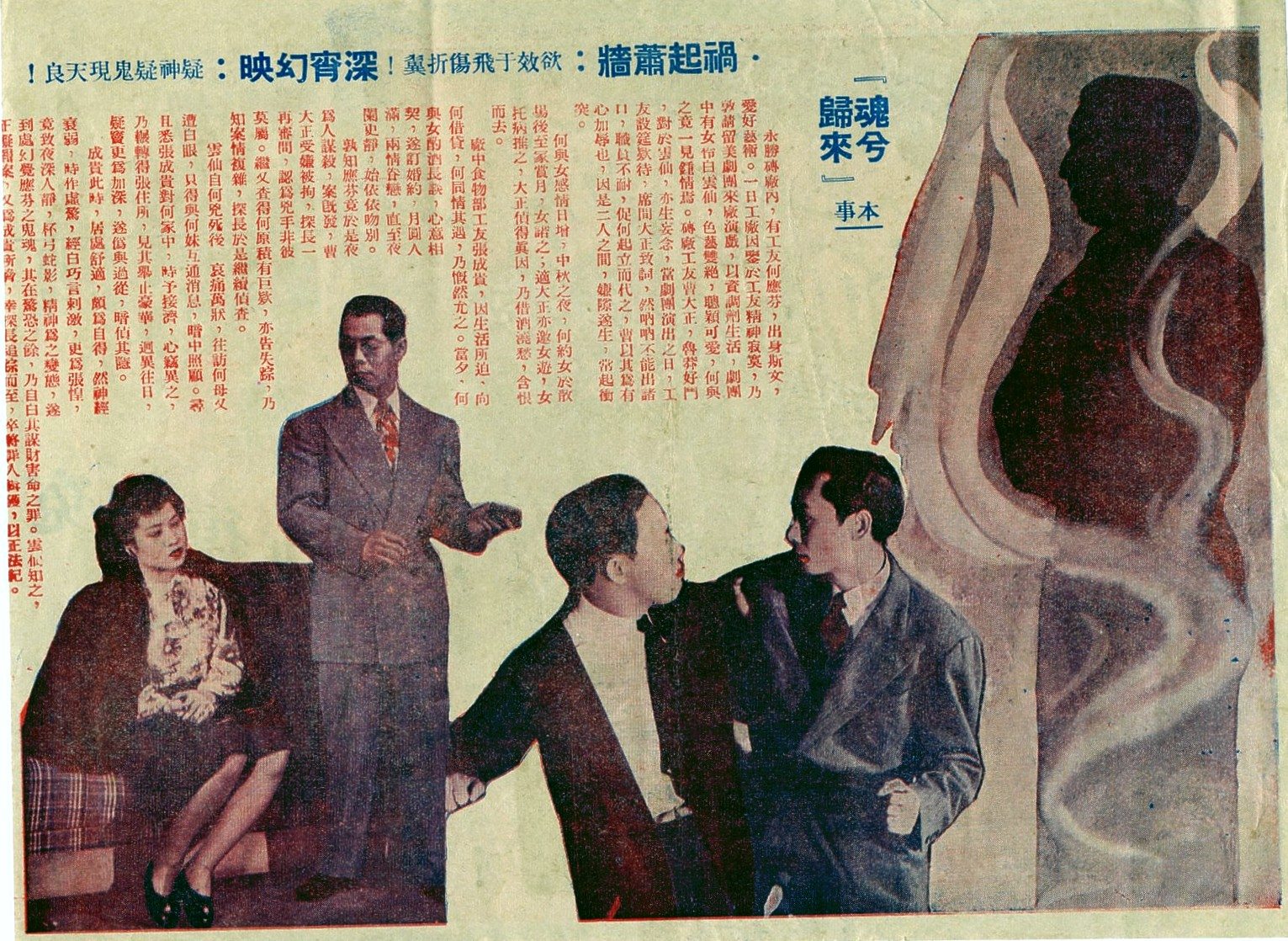 Leaflets of colour Cantonese film "The Returned Soul" in 1947 (Back) 中文（香港）: 1947年，彩色粵語電影《魂兮歸來》的宣傳單張 (反面)